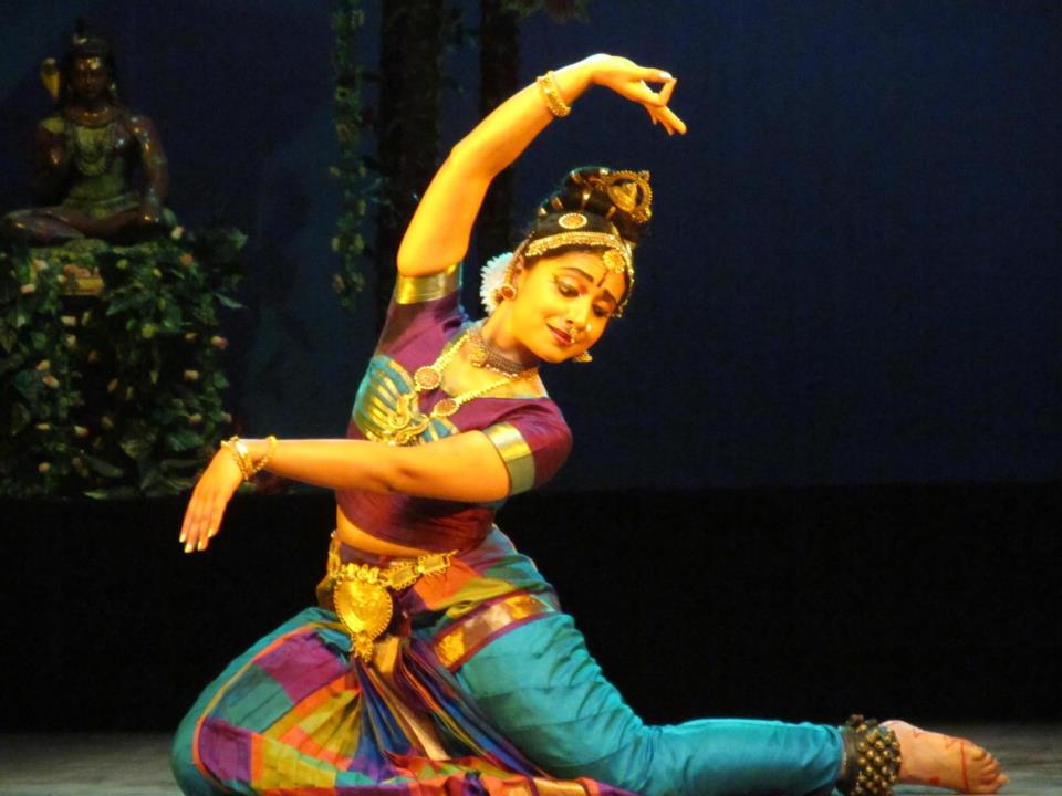 Beautiful Posture